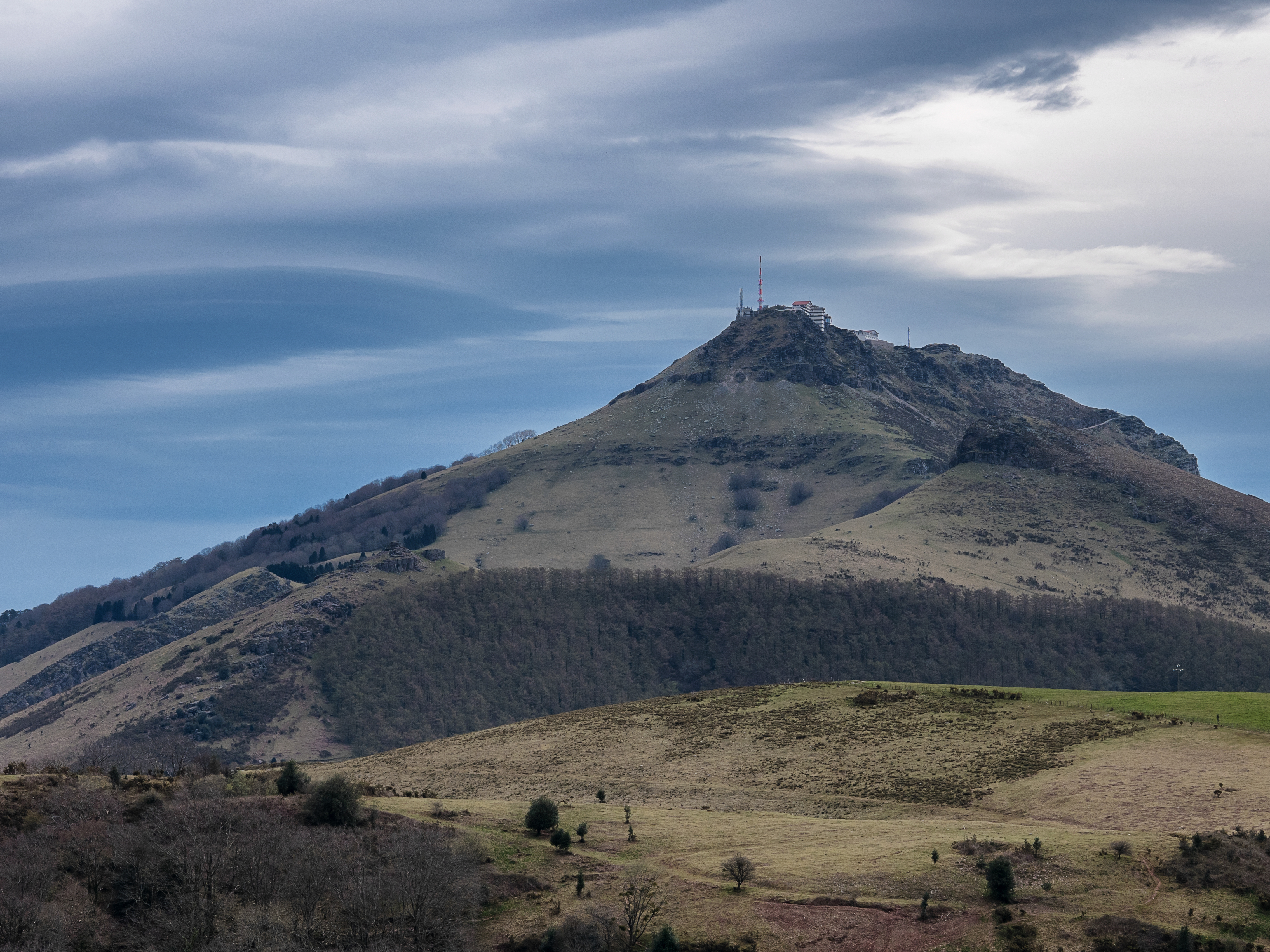 Summit of Larrun (La Rhune) as seen from Col d'Ibardin. Basque Country, France